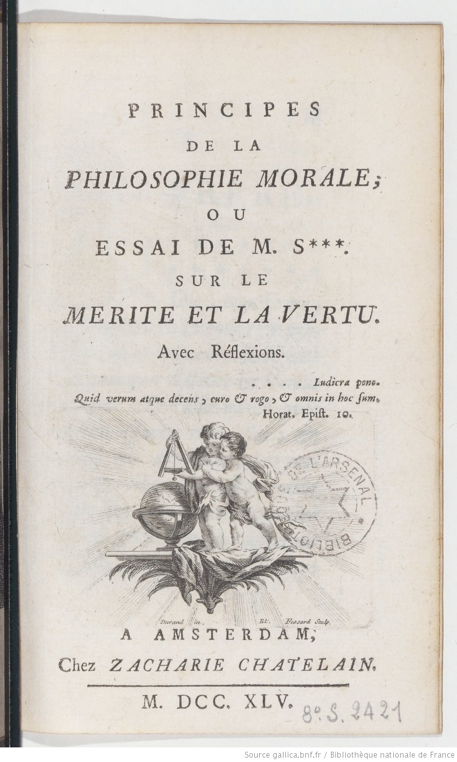 The title page of Diderot's French translation of Lord Shaftesbury's Inquiry concerning Virtue, or Merit, printed at Amsterdam.